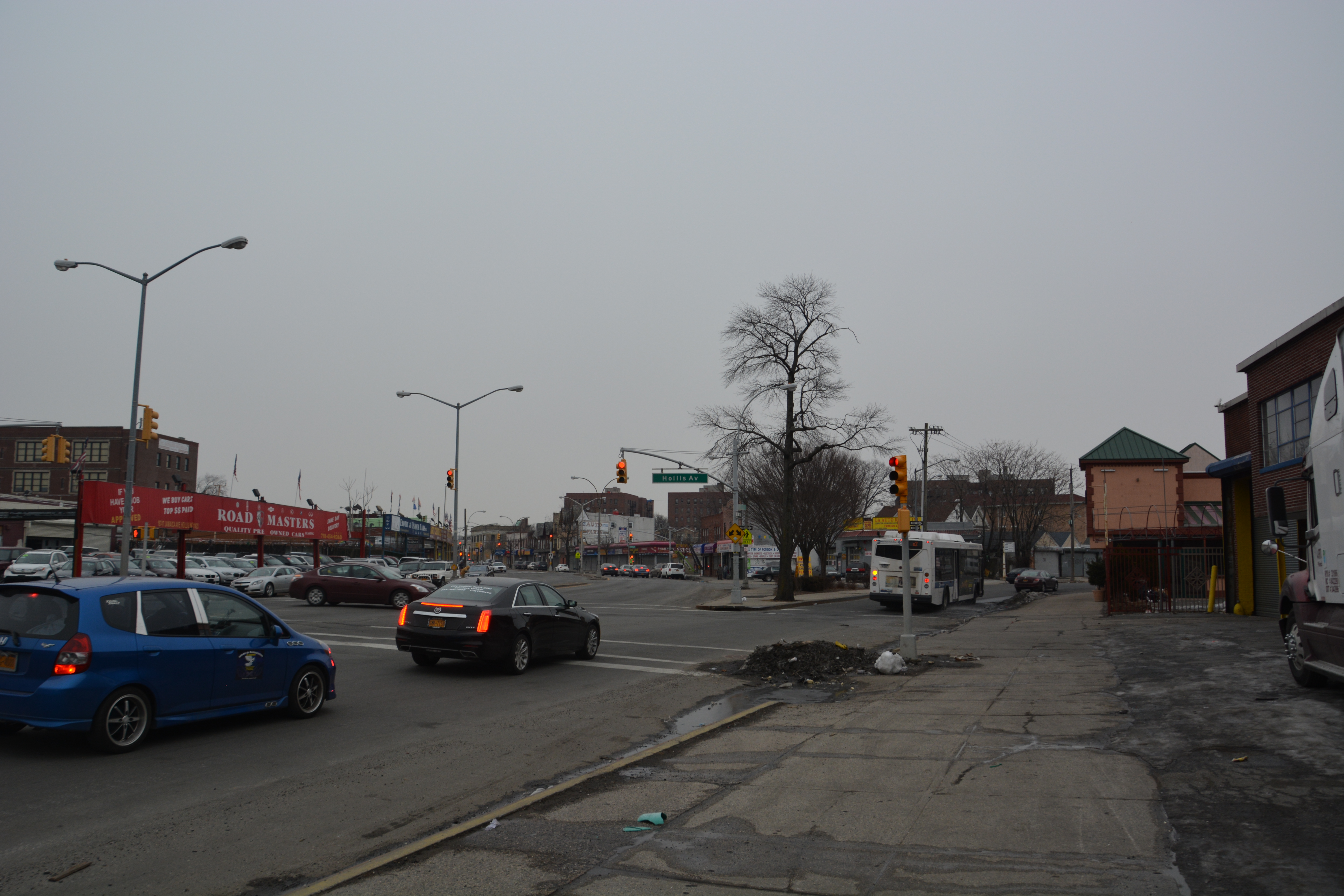 Intersection on Jamaica Avenue in Hollis, Queens, New York.